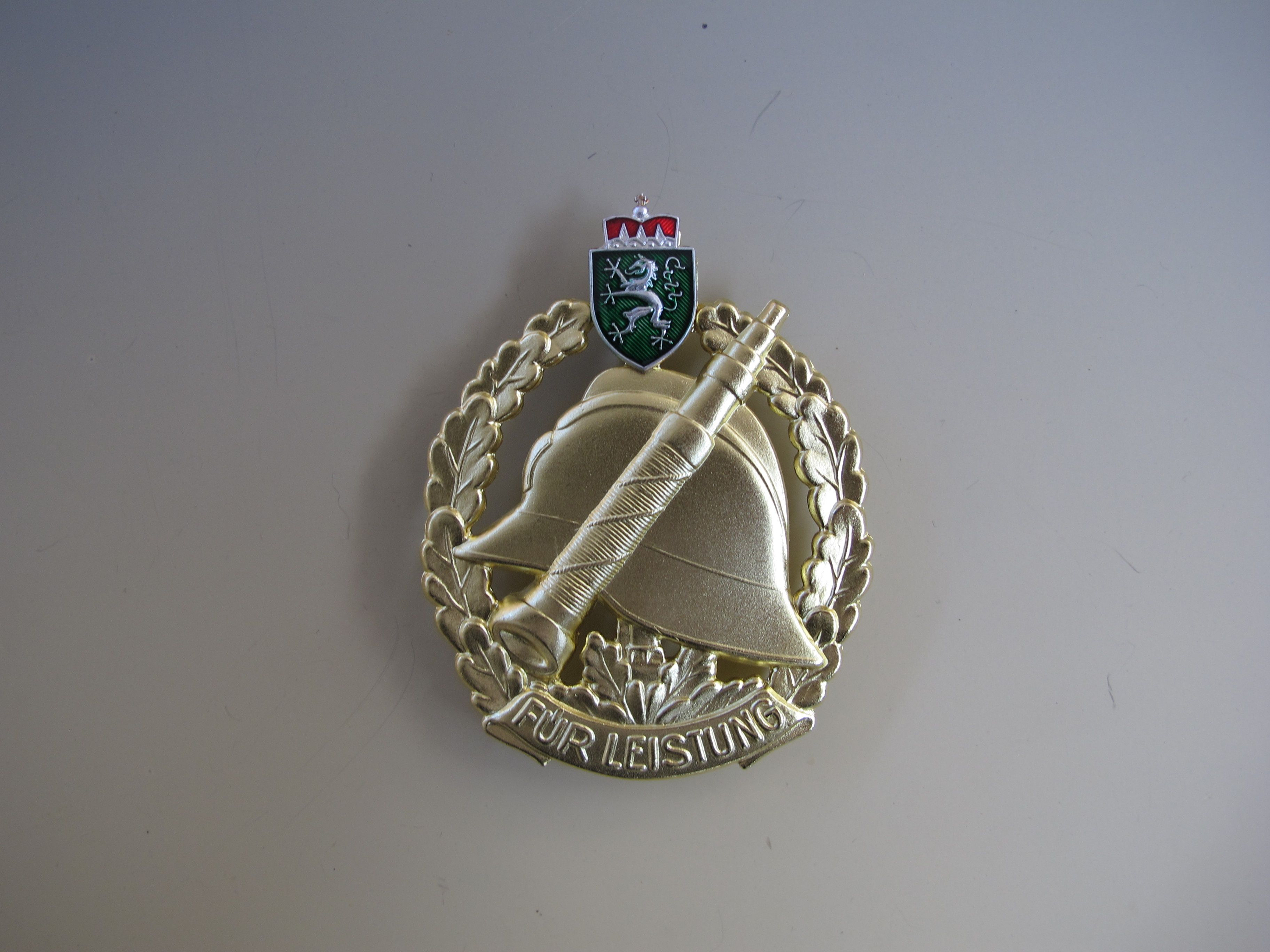 Firefighting in Styria